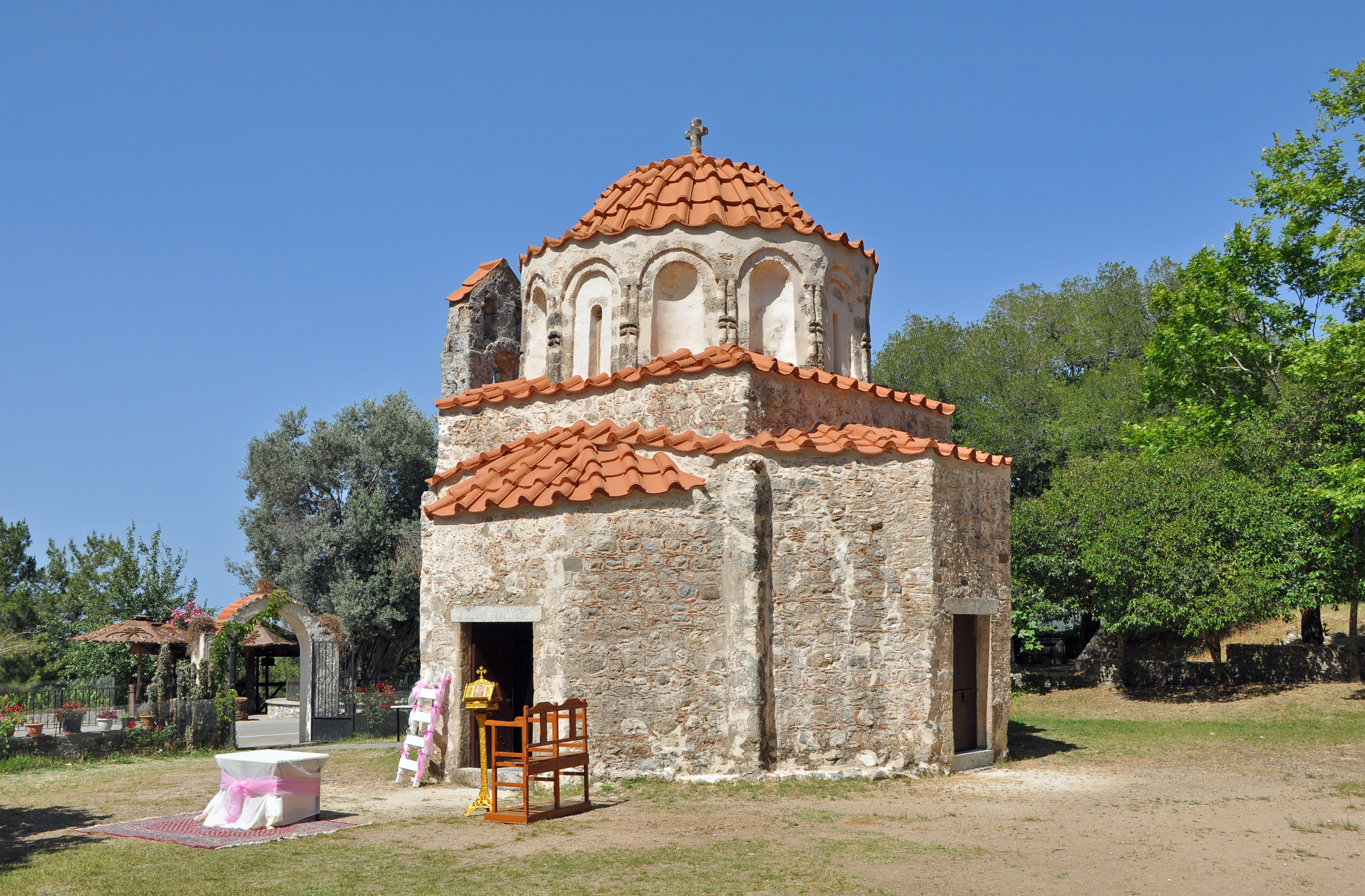 Eleousa (Rhodes, Greece): church of Agios Nikolaos Foundoukli (Άγιος Νικόλαος Φουντουκλί)